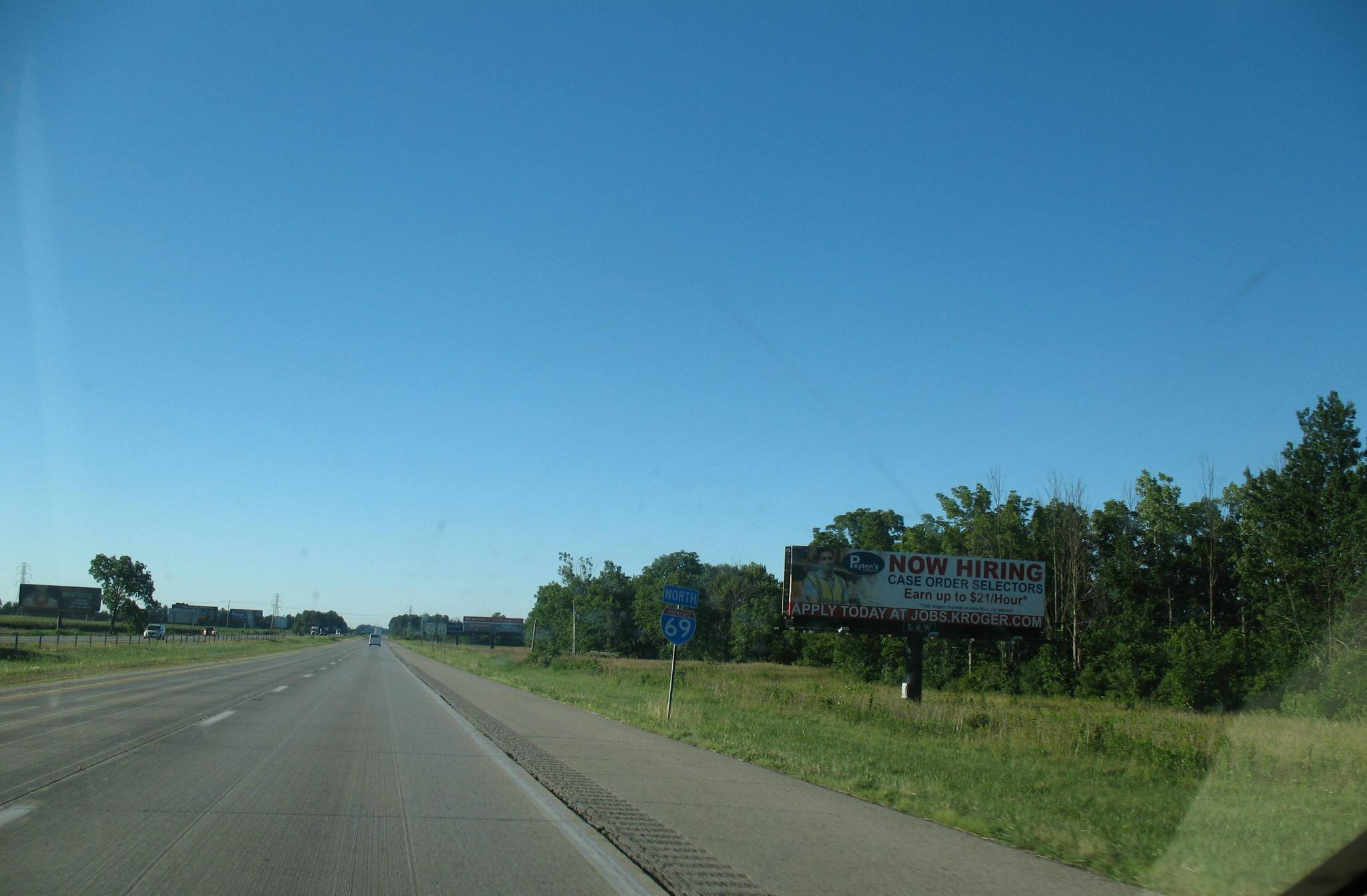 Interstate 69 in Indiana north of the US 35 interchange